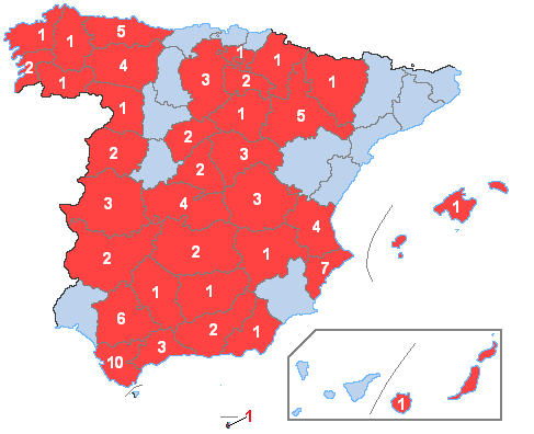 Number of Osborne bulls per Spanish province